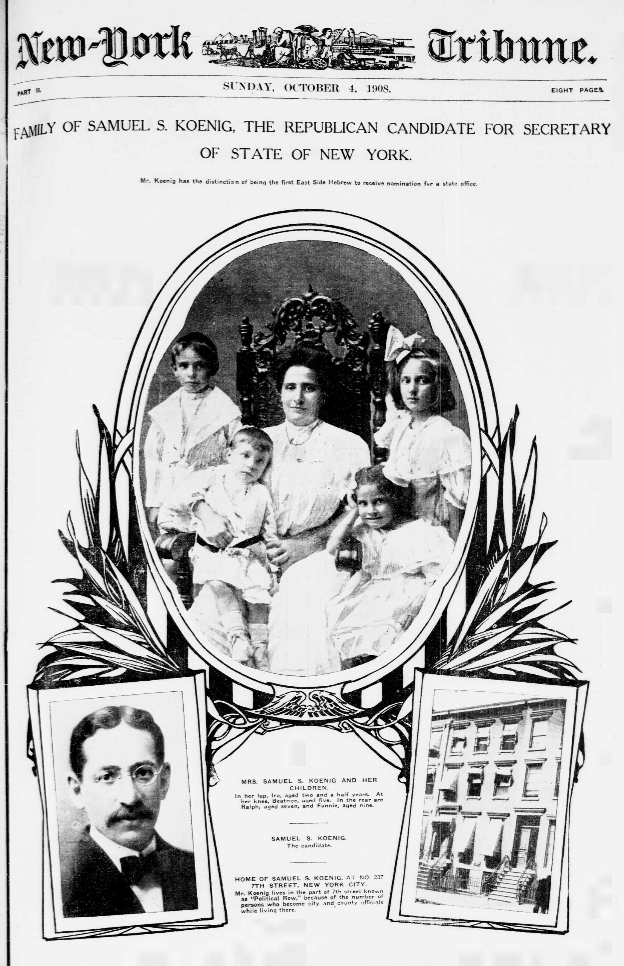 New-York tribune. (New York [N.Y.]) 1866-1924 October 4, 1908, Image 17 Notes: Cover, illustrated supplement. Format: Newspaper page, from microfilm Rights Info: No known restrictions on reproduction. Repository: Library of Congress, Serial and Government Publications Division, Washington, D.C. 20540 USA. Part Of: Chronicling America (Library of Congress) (DLC) - Persistent URL: More information about the Chronicling America Web site is available at